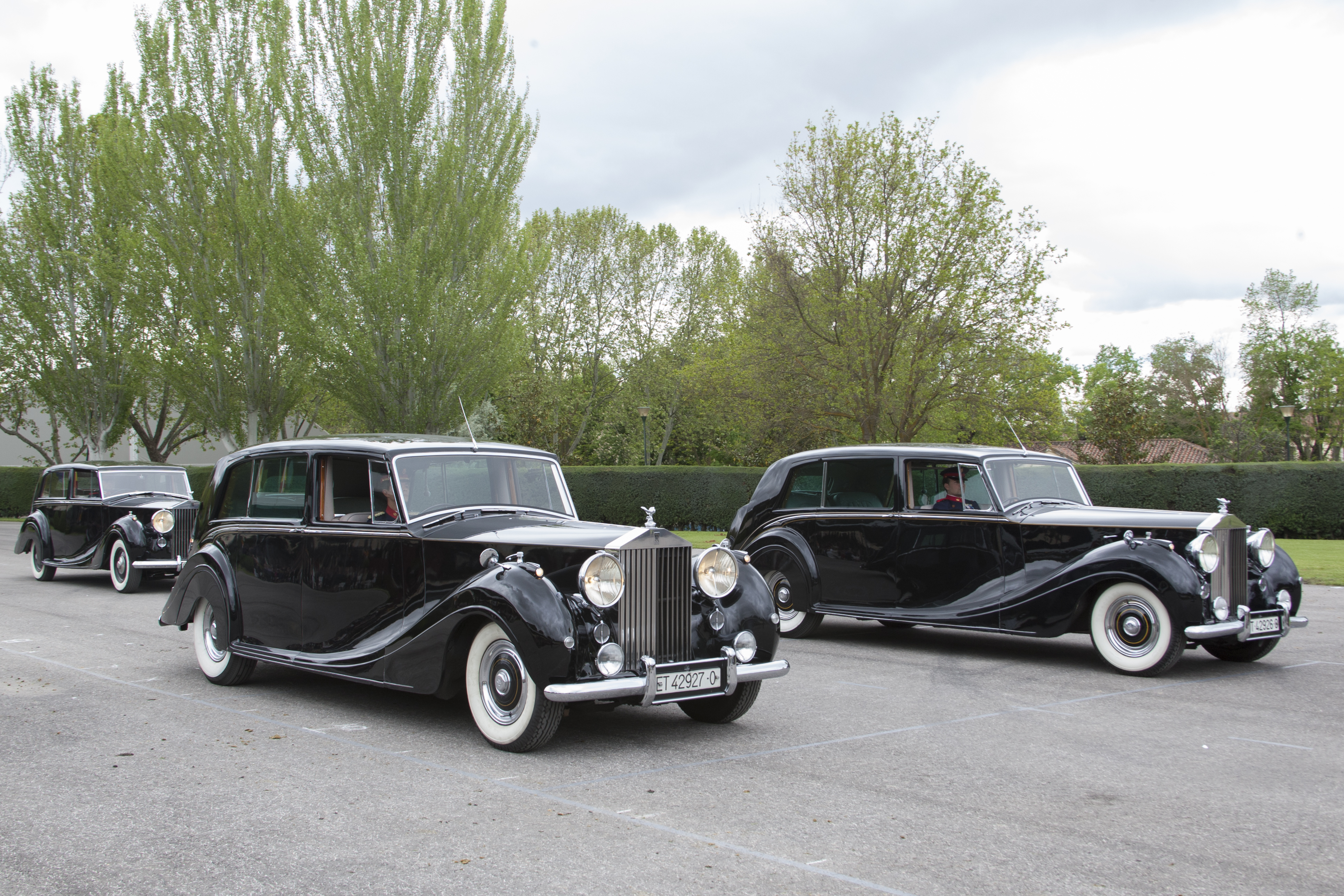 Two Rolls-Royce Phantom IV owned by the Spanish Army, the limousine at left with chassis number 4AF14 and at right the 4AF16. Behind them is seen a third car, it is the smaller six cylinder Silver Wraith model.